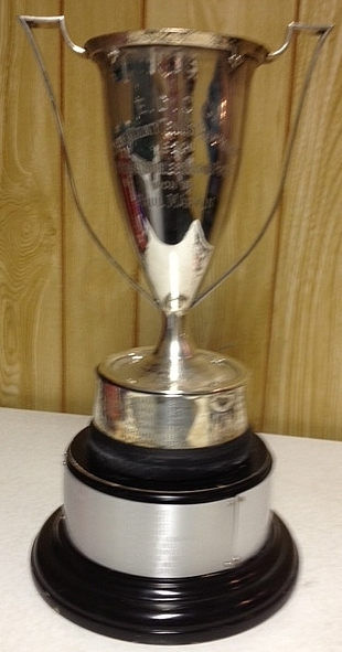 Paul Martin Memorial Trophy. The winners of an annual tennis tournament, have their names engraved along its base. Hosted by the Westchester County Tennis League since 1932 (excluding 1942-45).